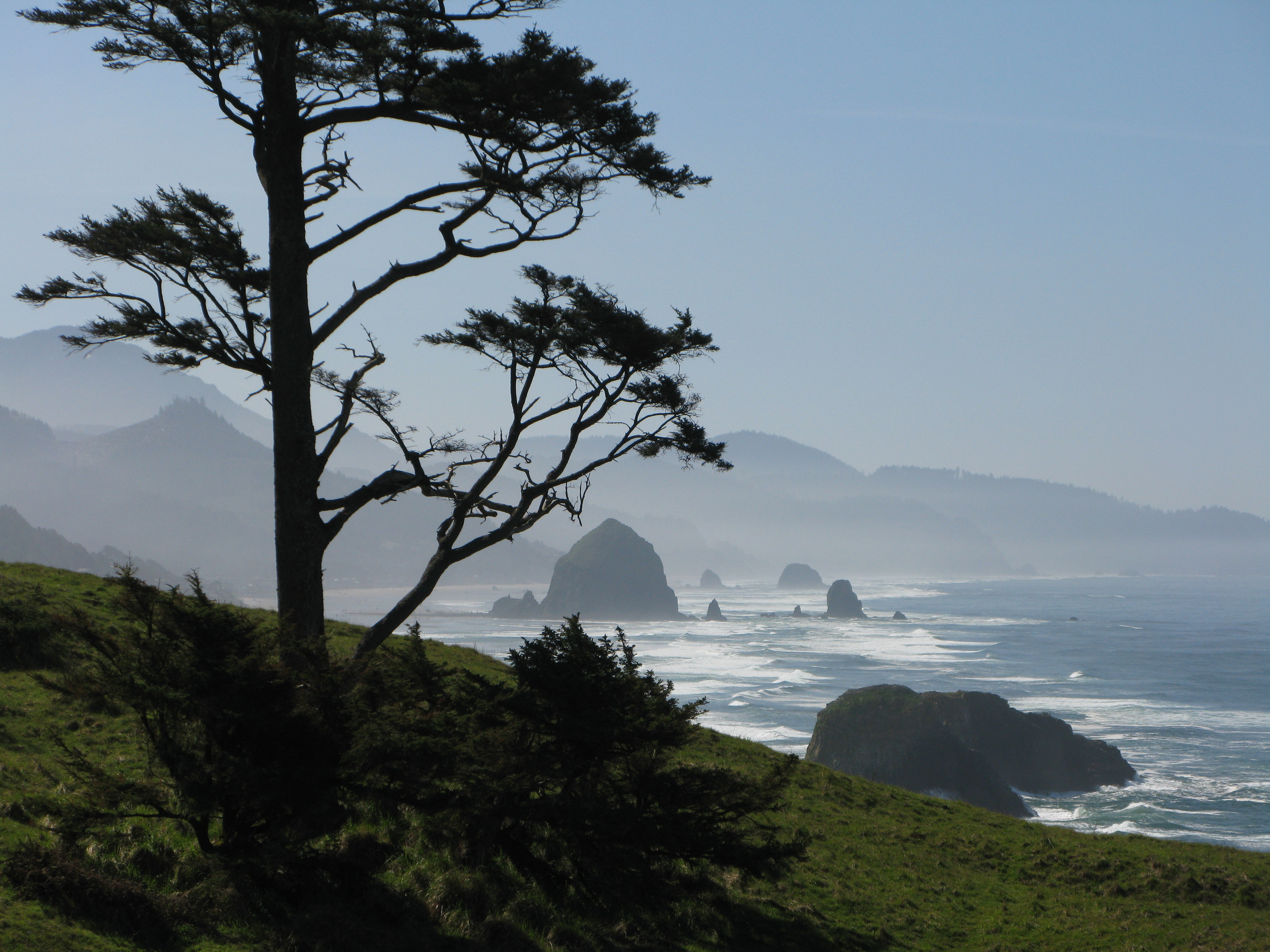 Taken from Ecola State Park, a photograph looking south along the Pacific Ocean coast toward Haystack Rock in Cannon Beach.